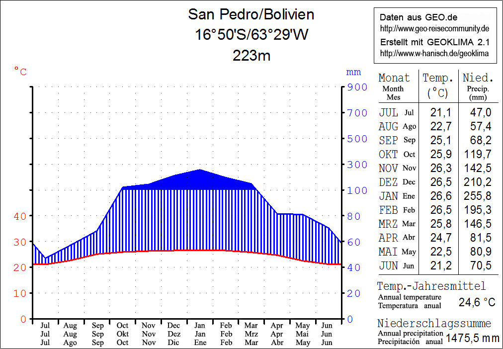 Climate chart in the Walter and Lieth format, metric, °Celsius und millimeters, made with Geoklima 2.1